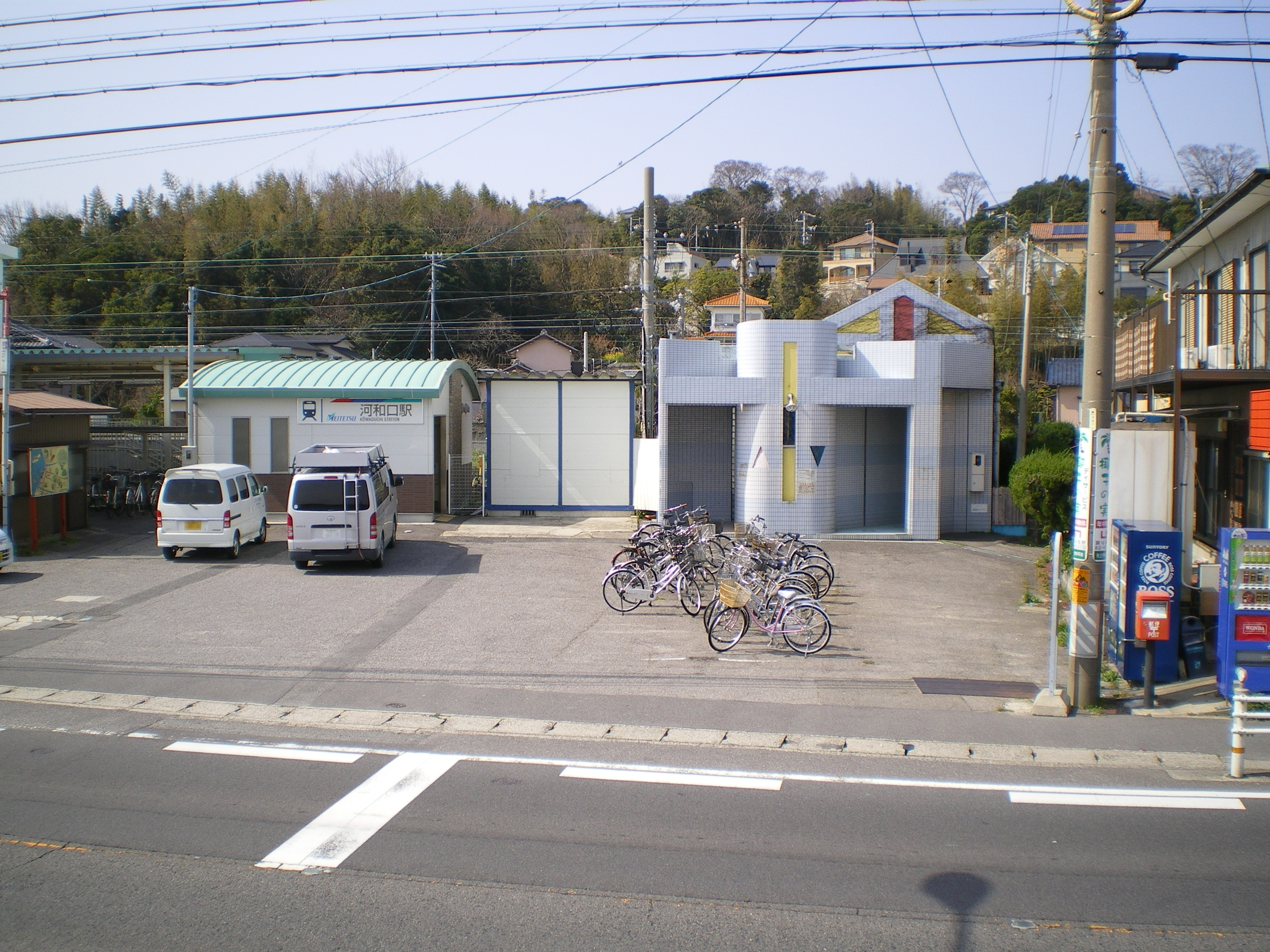 Nagoya Railroad Kowa Line Kōwaguchi Station Building